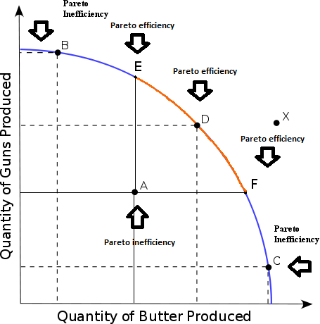 A diagram showing the production possibilities frontier (PPF) curve for producing "guns" and "butter". Point "A" lies below the curve, denoting underutilized production capacity. Points "B", "C", and "D" lie on the curve, denoting efficient utilization of production. Point "X" lies outside the curve, representing an impossible output for existing capital and/or technology.